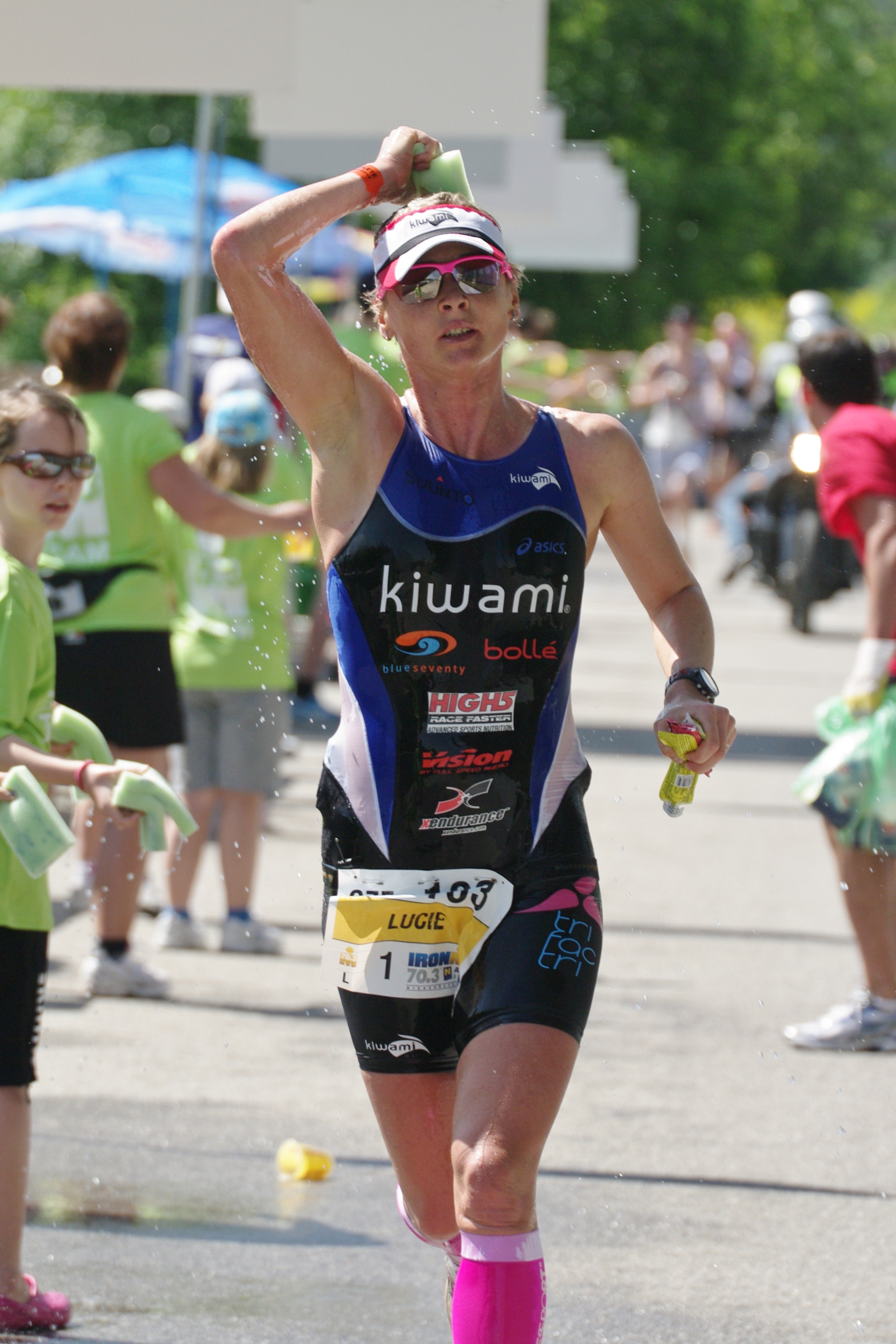 Czech triathlete Lucie Reed in the Ironman 70.3 Austria on 20 May 2012 in St. Pölten.